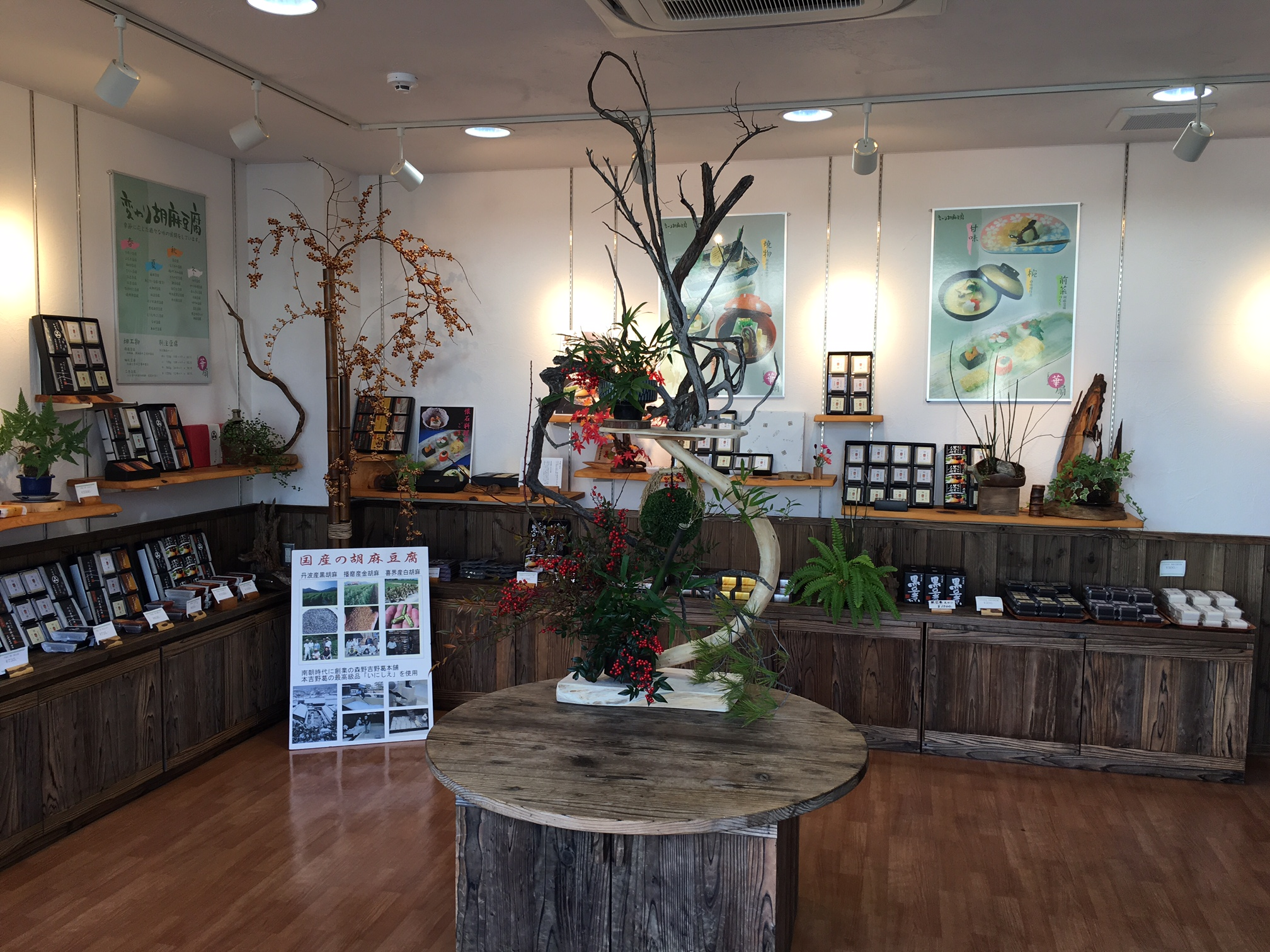 日乃本食産株式会社 三田見野屋 店舗